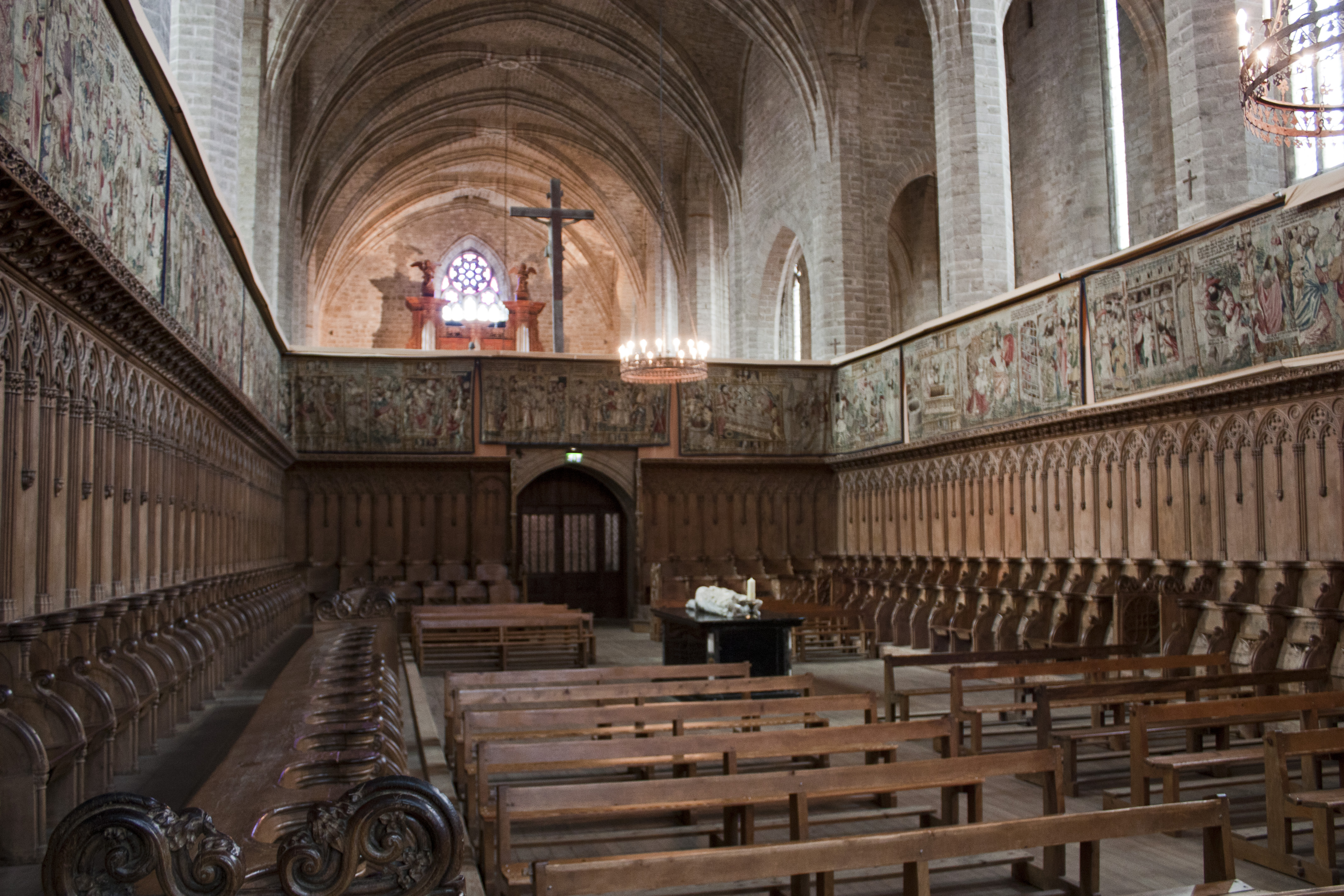 Stalls of the choir of the abbey-church..